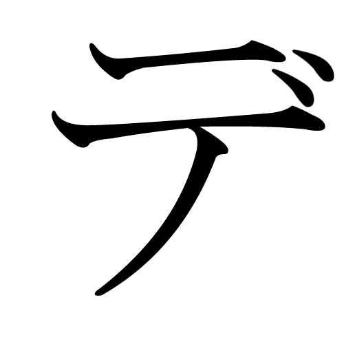 The katana character 'de'.